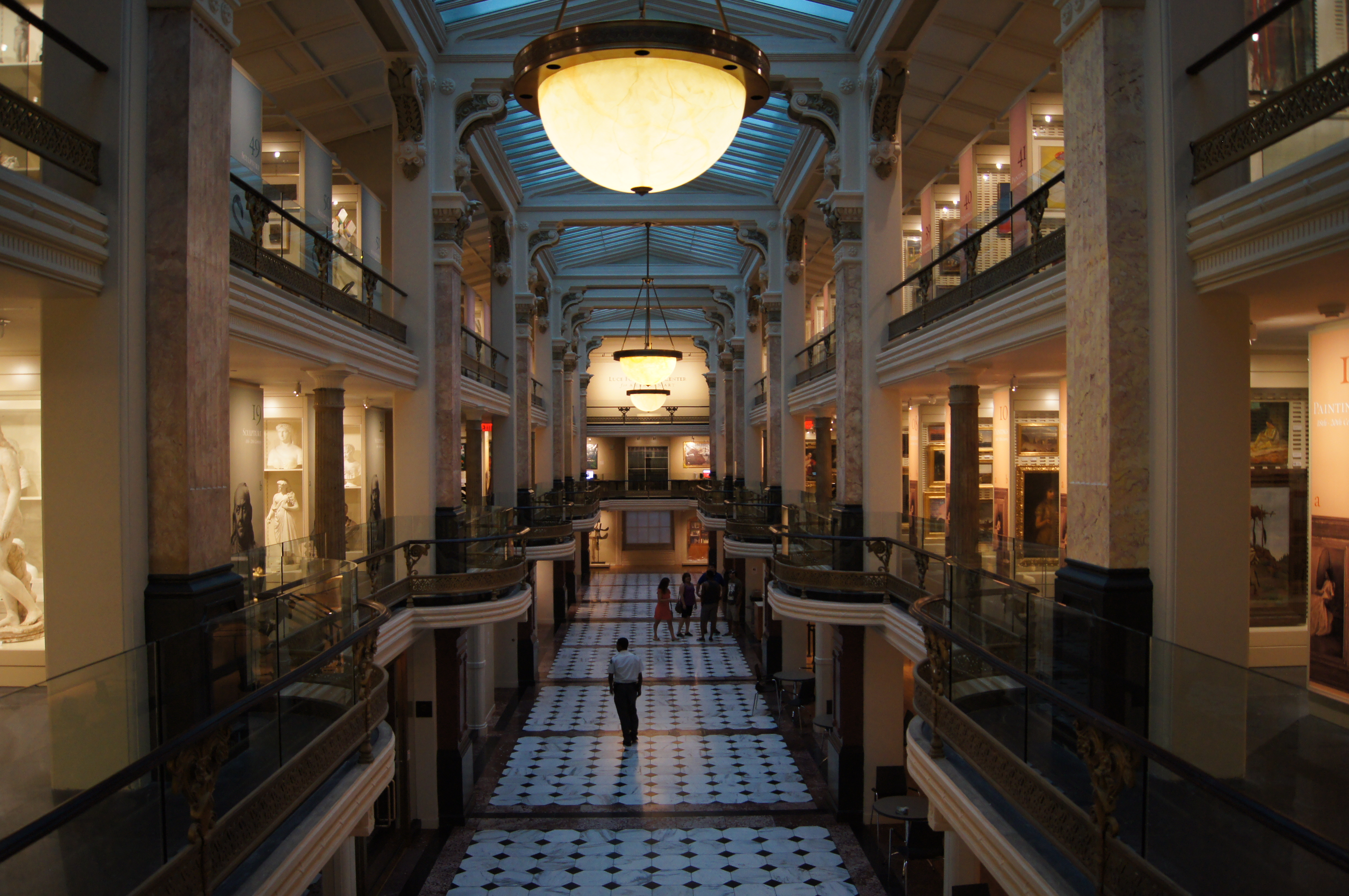 Smithsonian American Art Museum in Washington, D.C., USA